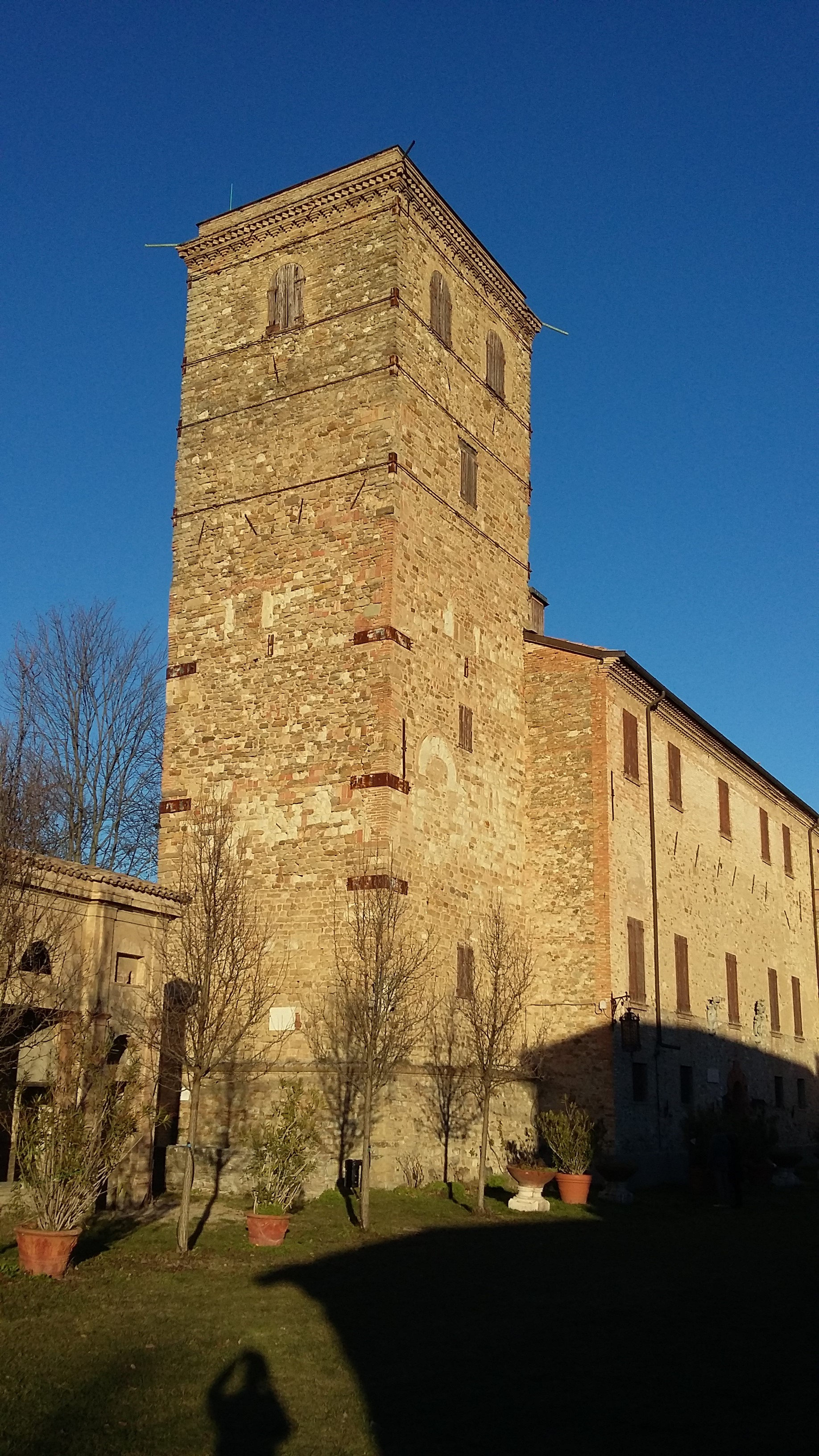 Montegibbio Castle, Sassuolo (MO)